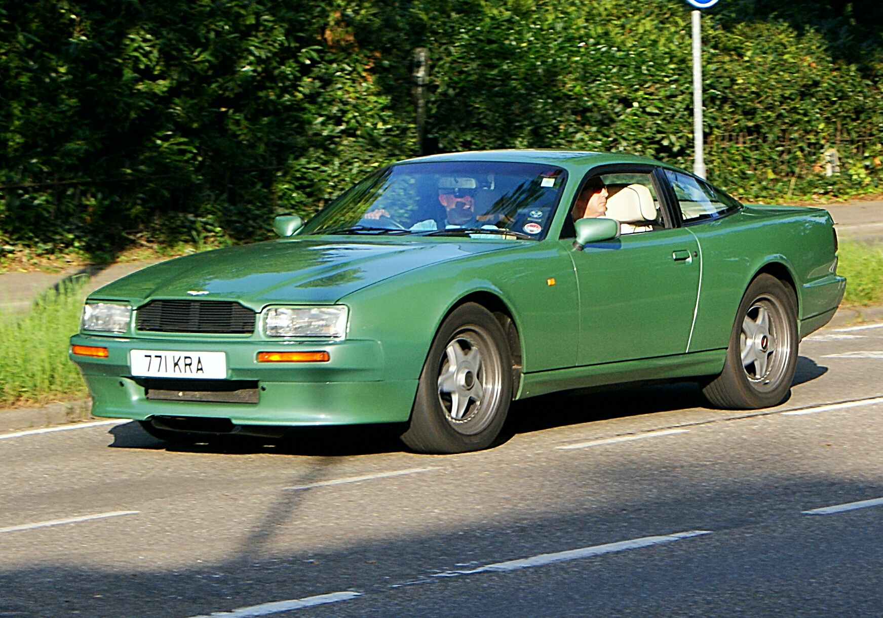 771 KRA (GB) Only 365 made!